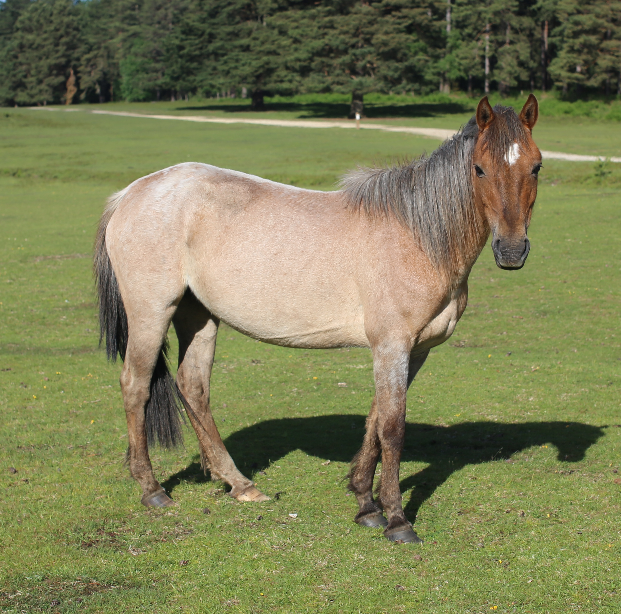 Photo of a free roaming new forest pony